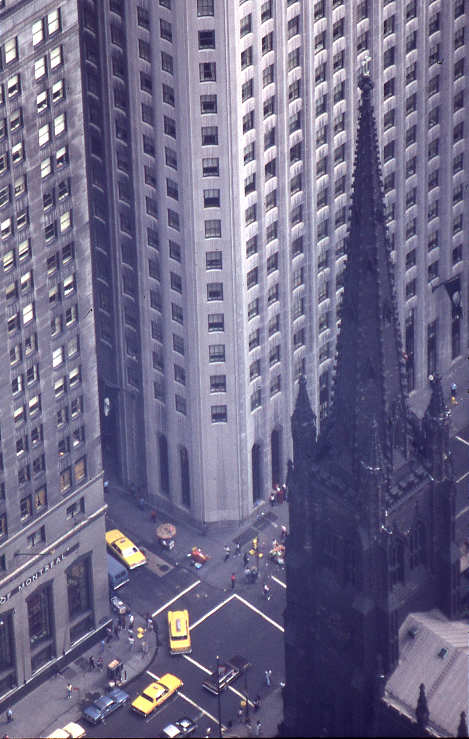 Holy Trinity Church, Broadway and Wall Street, New York, NY, 1980, by Rick Dikeman